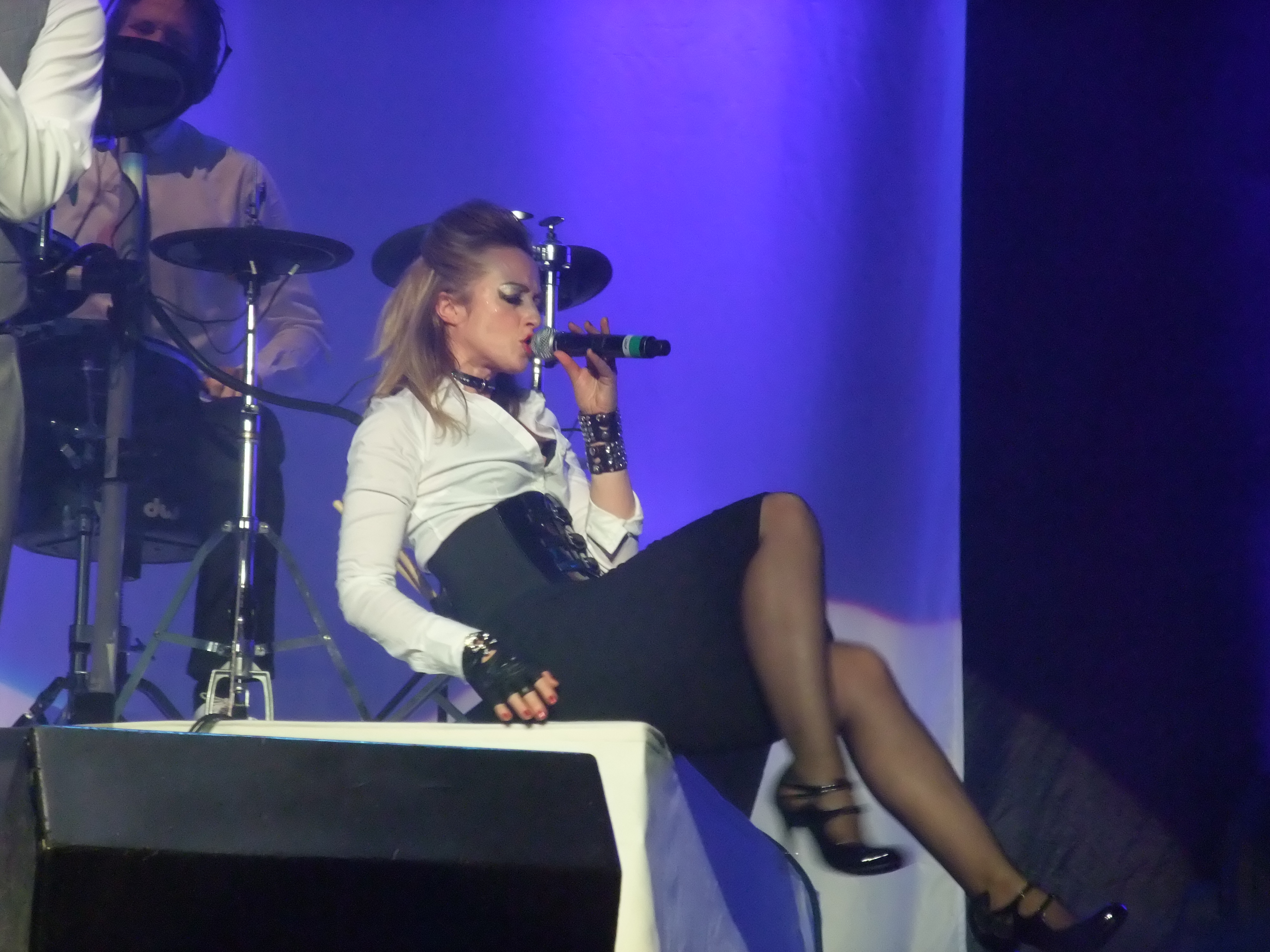 Heaven 17 singer Billie Godfrey on Steel City 2008